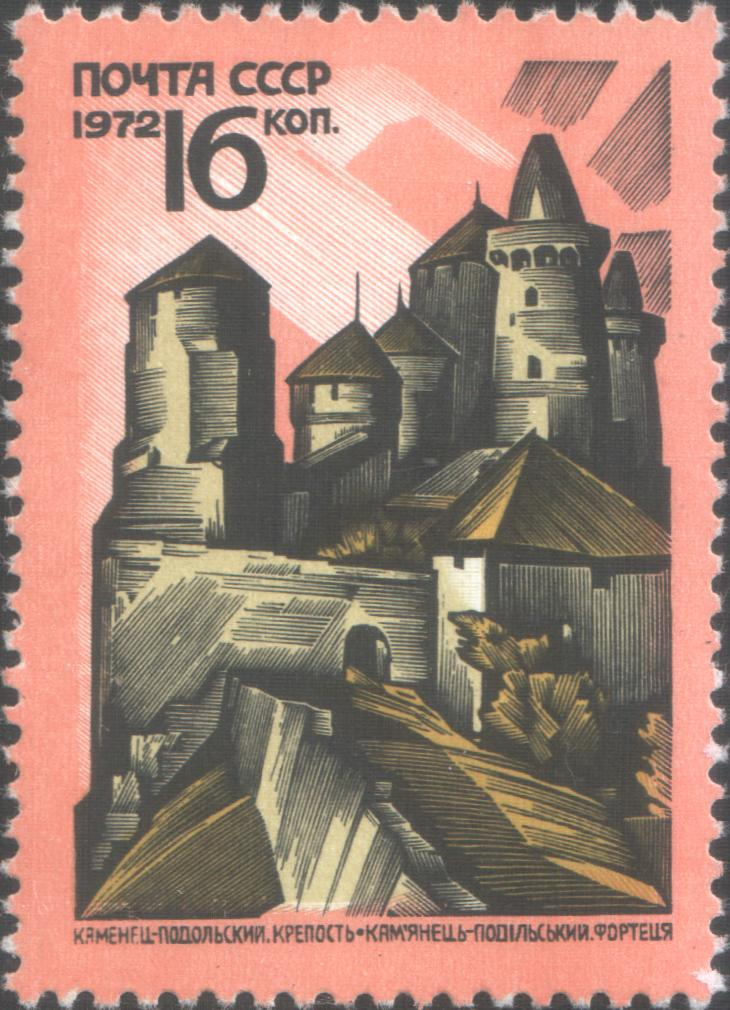 USSR Post